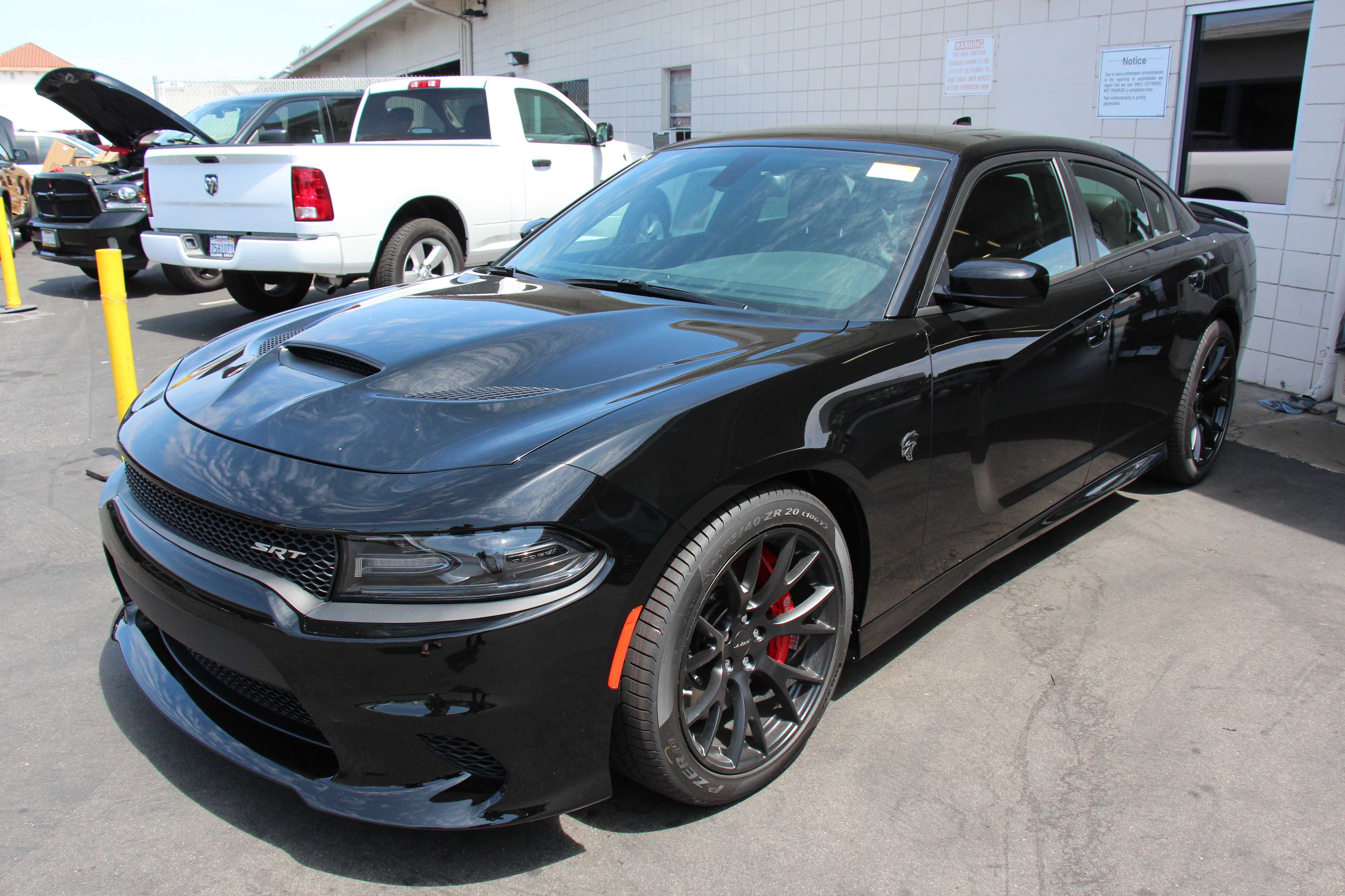 Known as the LX Charger, built by Dodge from 2006, the car was created to continue the Dodge Charger line, and replaced the Dodge Intrepid as Dodge's full-size sedan. Only available as a 4 door sedan, it shares its LX platform with the 4 door Chrysler 300, the newer third-generation 2 door Dodge Challenger. In 2011 it got a slightly revised body, dash and interior In 2015 A new style front was introduced Models available are; 292hp 3.6 V6 SXT, 370hp 5.7 litre RT, 470hp 6.4 litre SRT8 707hp 6.2 litre SRT Hellcat Introduced in 2015, the supercharged 6.2 litre V8 Hellcat is claimed to be the fastest factory four-door sedan ever built. 11 sec qtr mile and top speed of 204mph